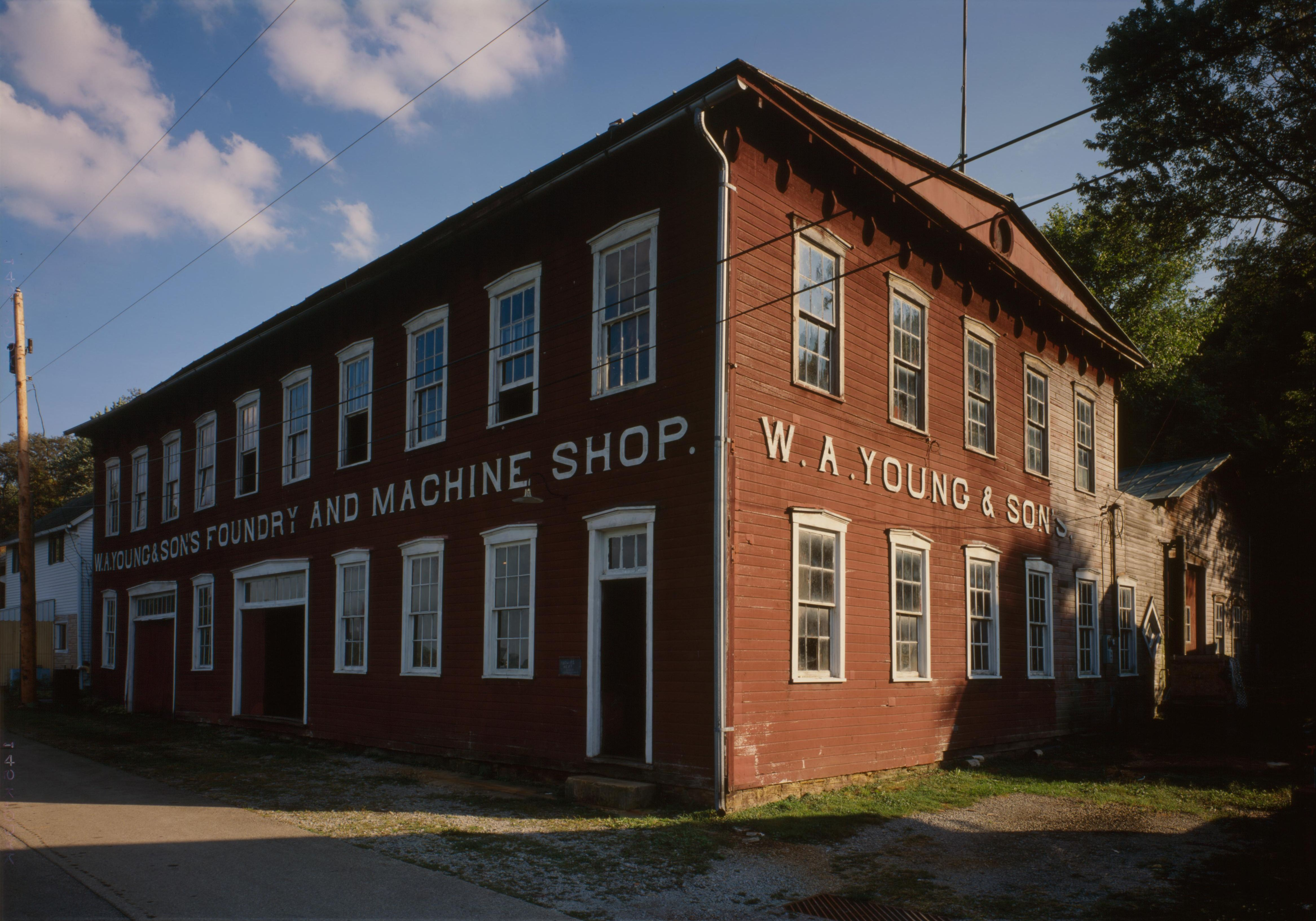 Front of the W.A. Young & Sons Foundry & Machine Shop, located along Water Street in Rices Landing, Pennsylvania, United States. Built circa 1900, the foundry is a contributing property to the Rice's Landing Historic District, which is listed on the National Register of Historic Places.